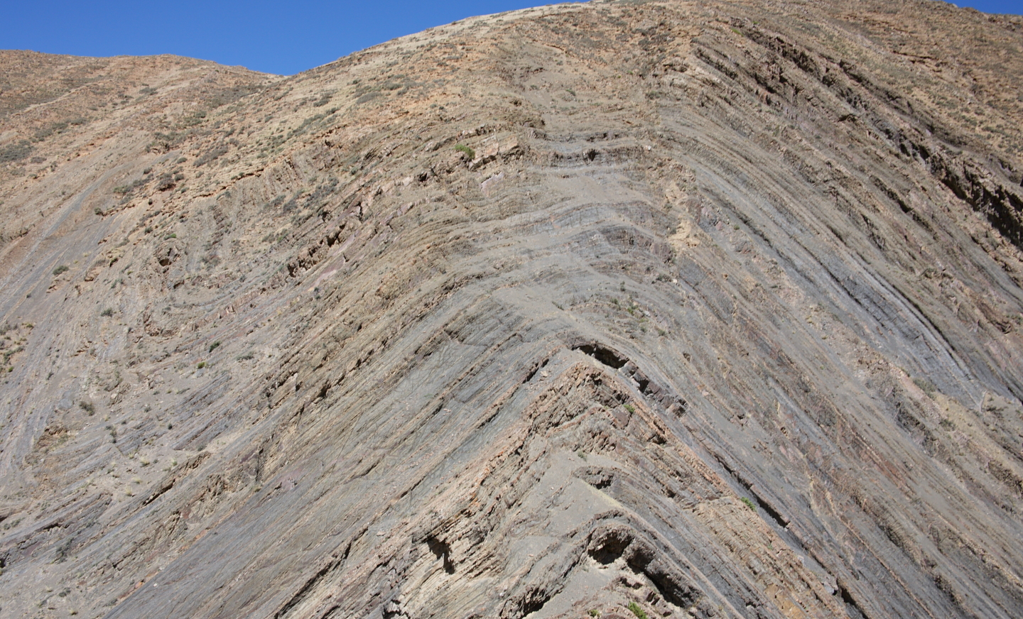 Folded layers of rock at Pang La Pass in Tibet.